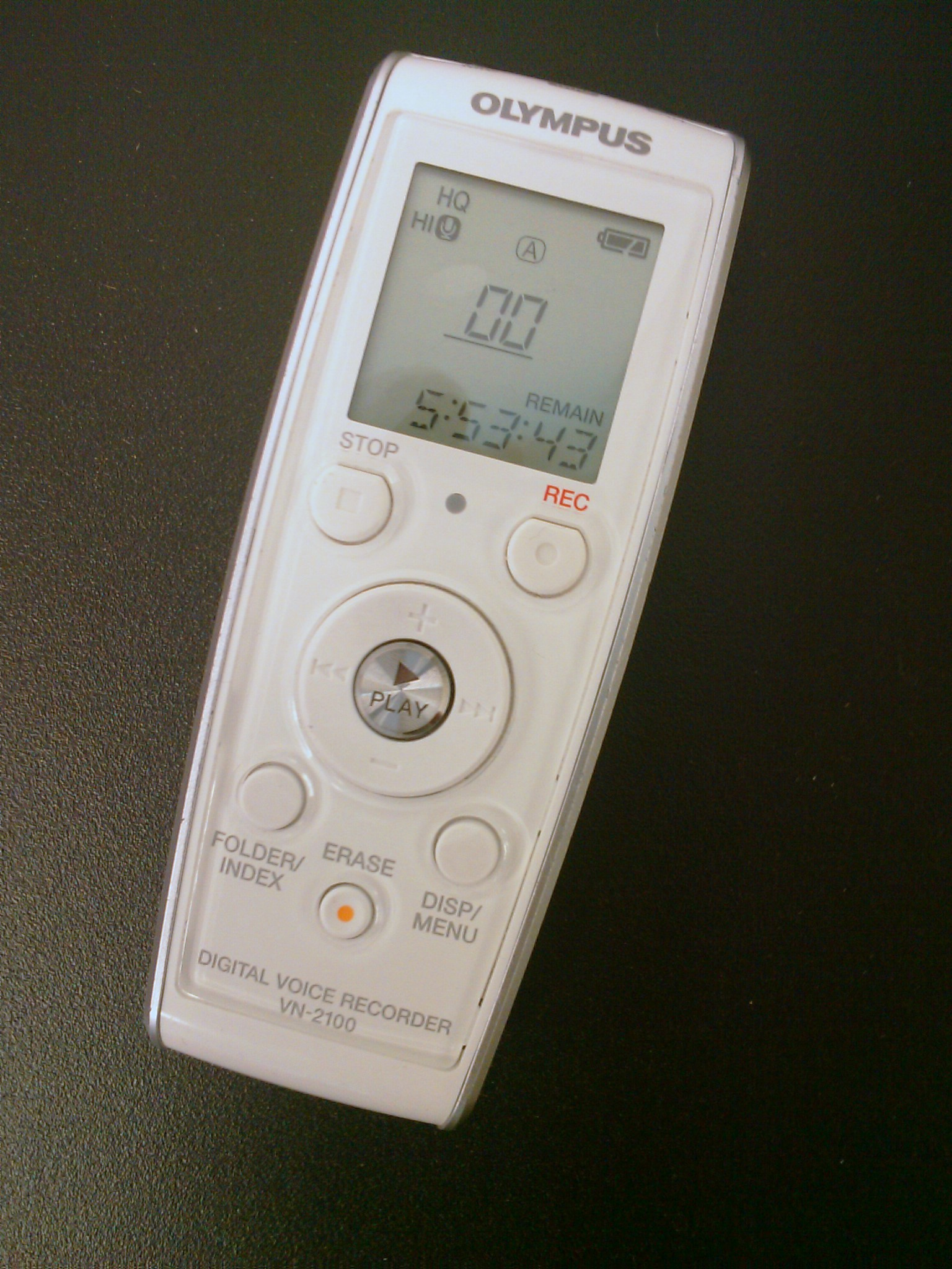 Olympus Digital Voice Recorder VN-2100